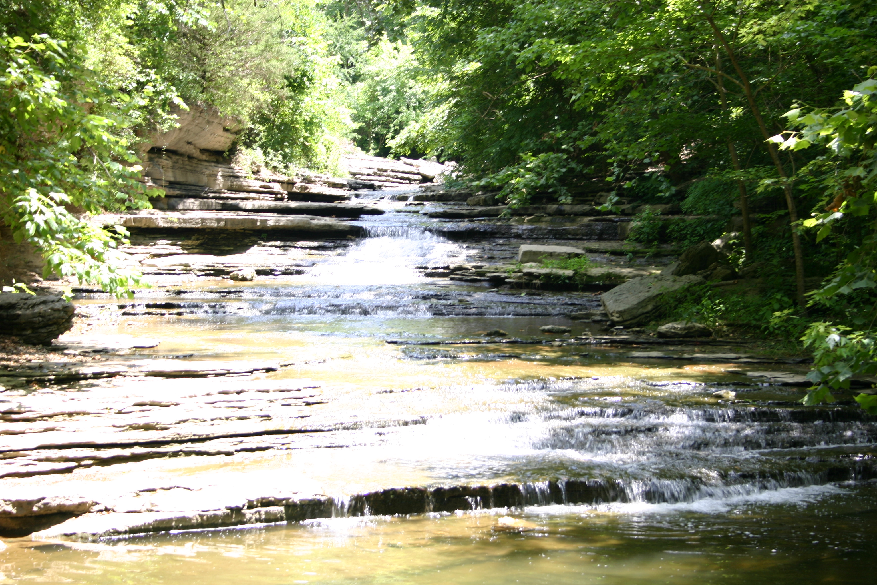 Author: Michael Krewson